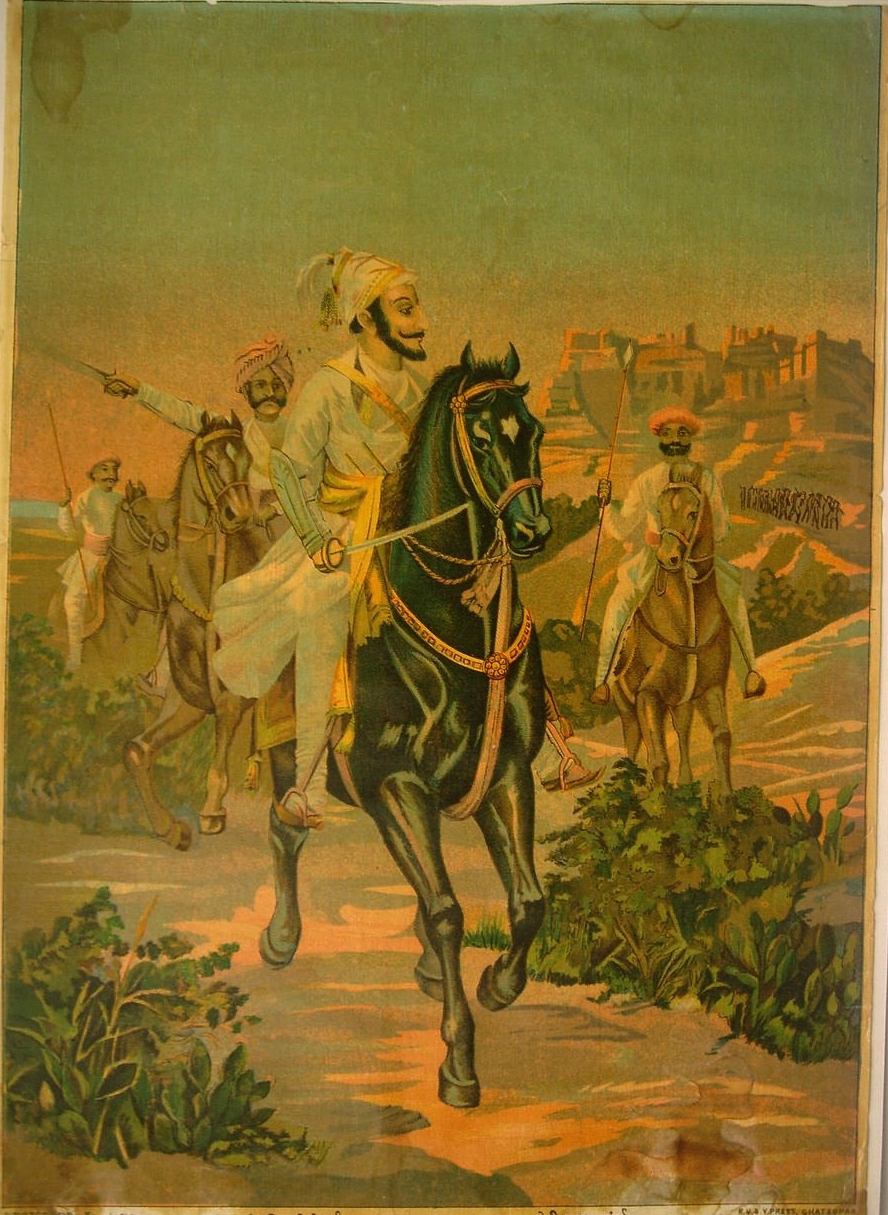 Shivaji in action; bazaar art, 1910's